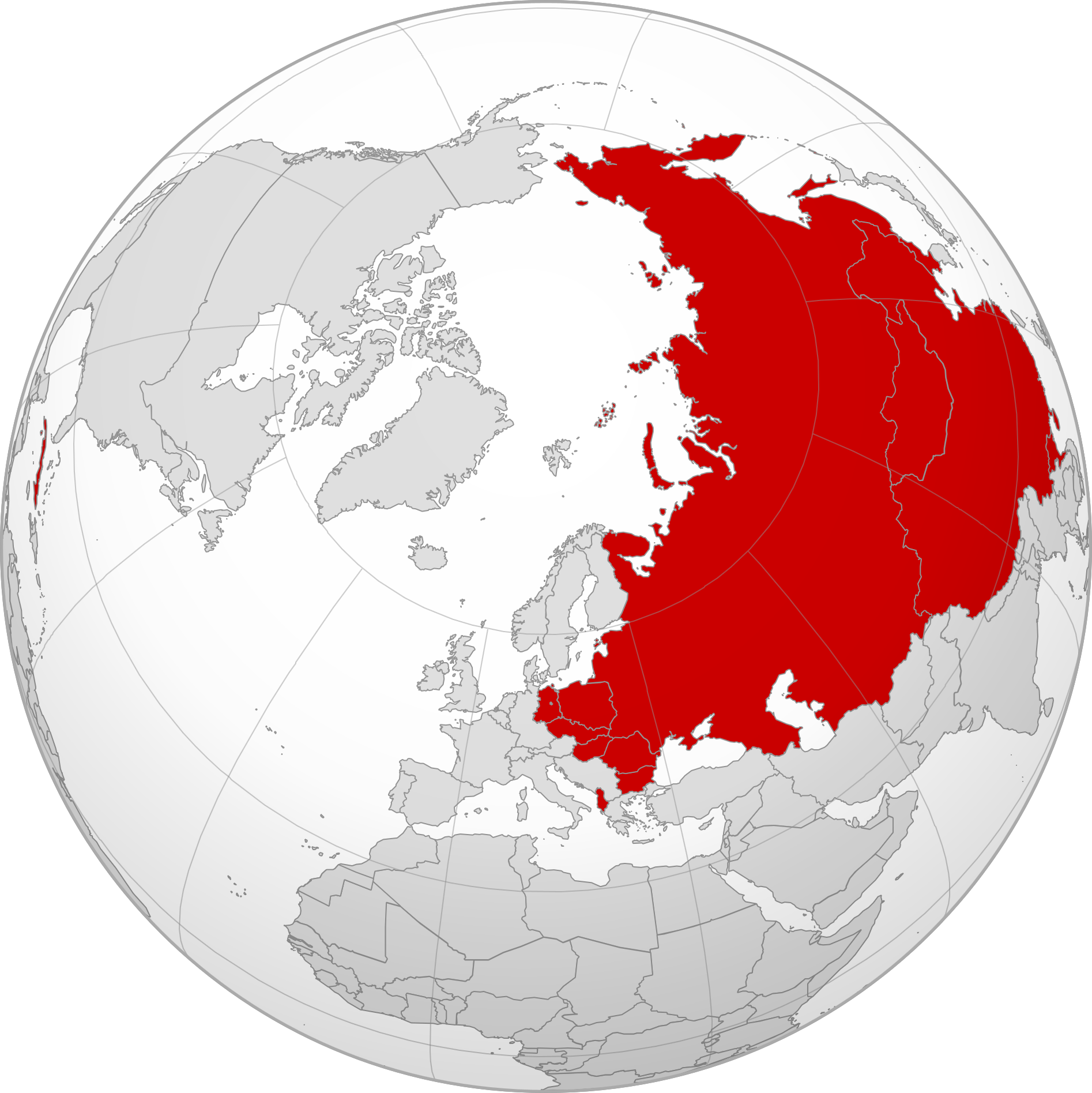 Map showing the maximum territorial extent of countries under the direct influence of the Soviet Union :*Between the Cuban Revolution/21st Congress of the Communist Party of the Soviet Union and the 22nd Congress of the Communist Party of the Soviet Union/Sino-Soviet split.